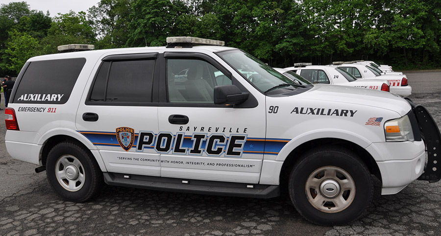 Emergency vehicle used by the Sayreville Police Auxiliary.